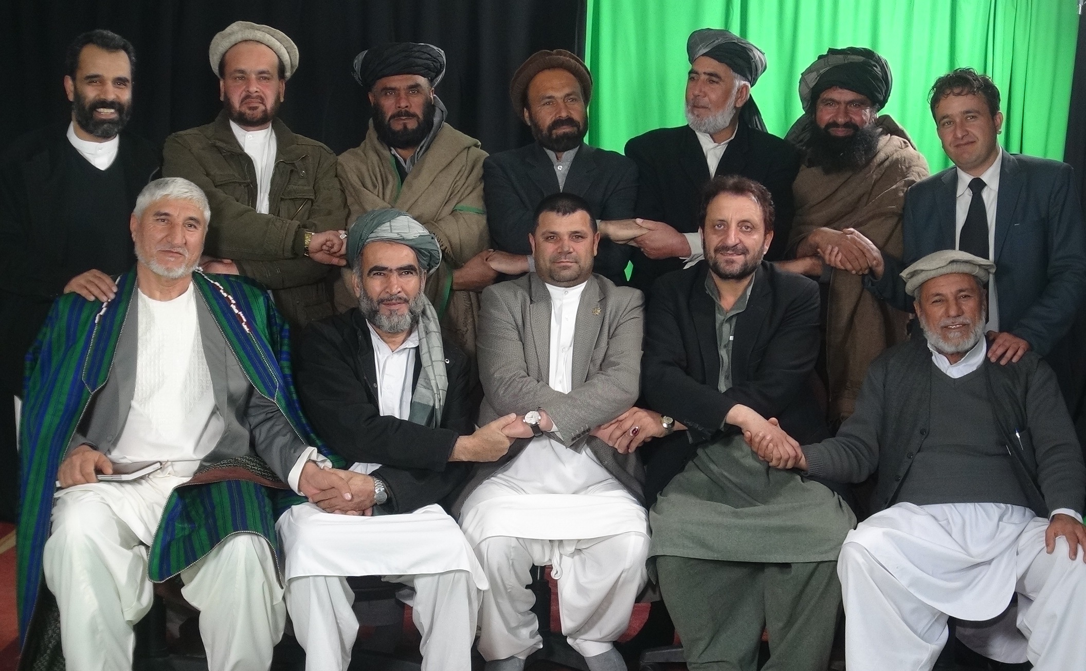 7Th Samoon Jirga Groupe Photo